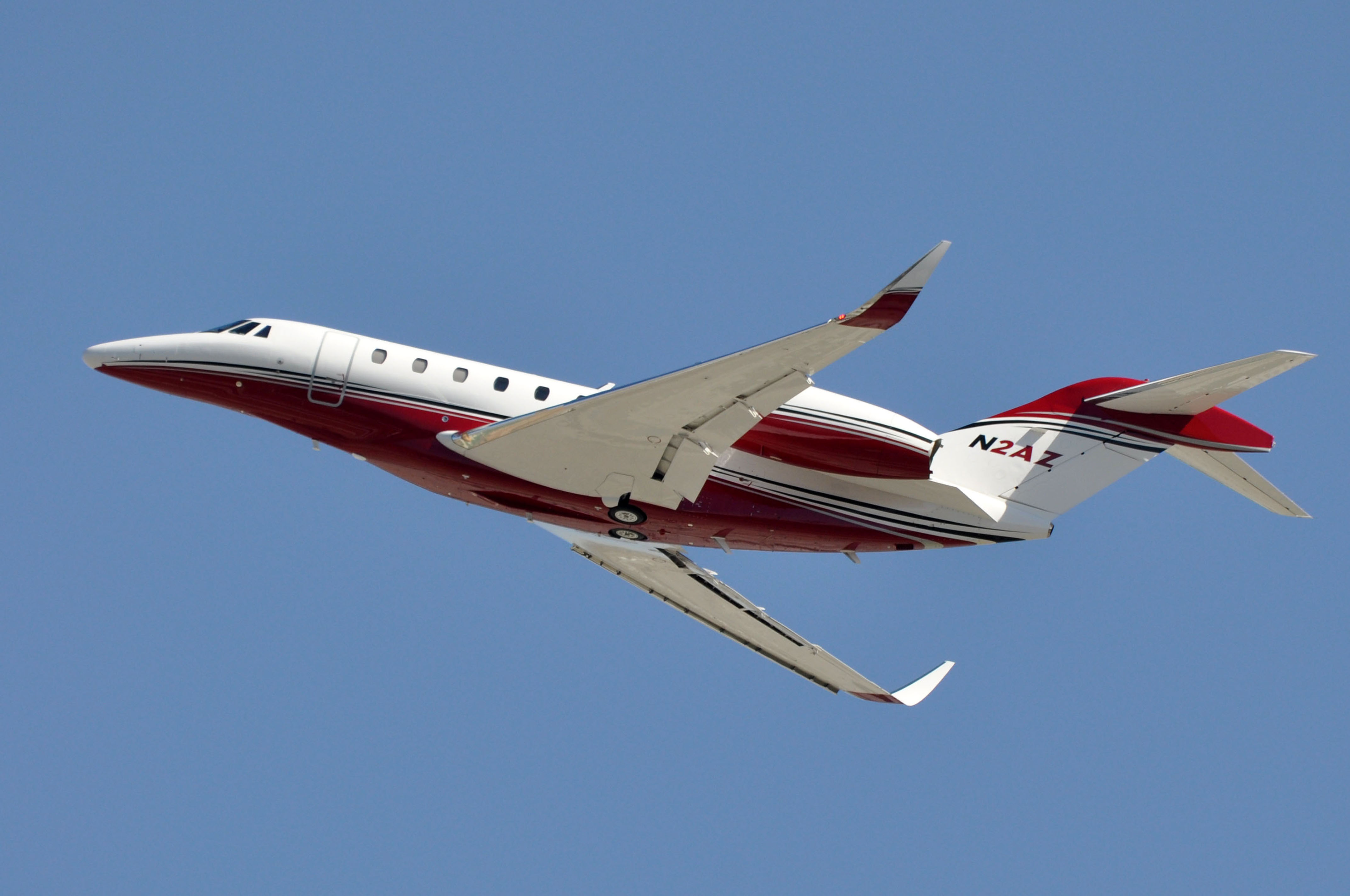 A Cessna 750 Citation X (MSN 750-0147) photographed departing LAX airport